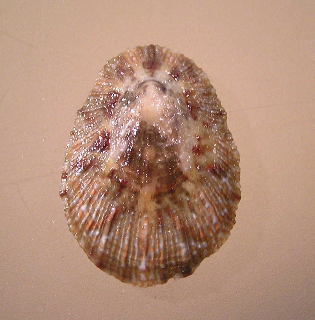 Cellana toreuma (Reeve, 1855), a limpet from the family Nacellidae; Japan